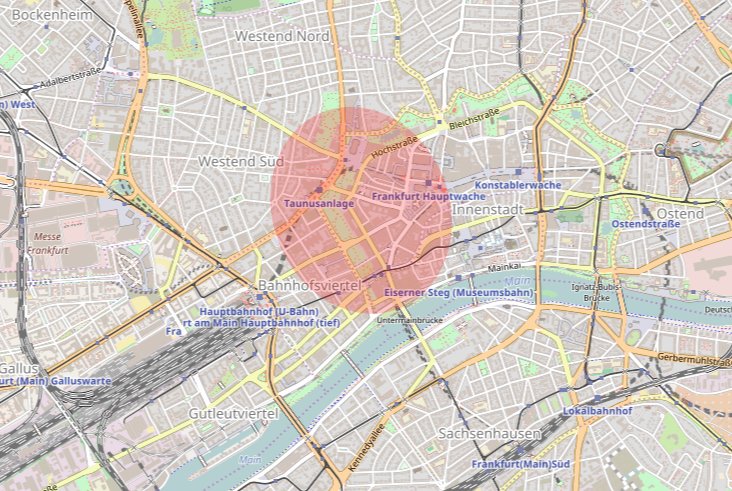 Bankenviertel (Banking District) in Frankfurt This map may be incomplete, and may contain errors. Don't rely solely on it for navigation.